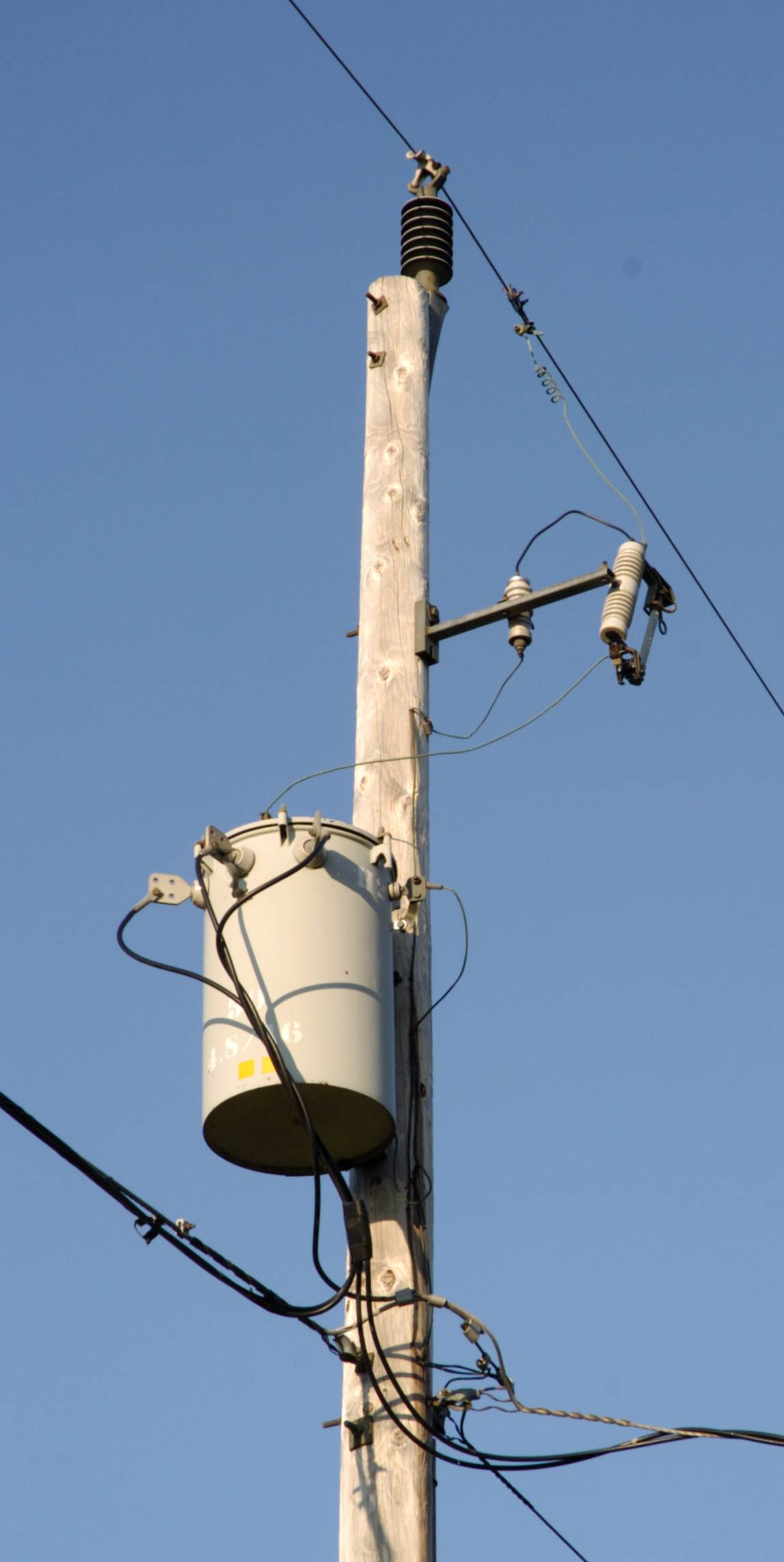 Single phase pole mounted Canadian power distribution transformer. The distribution wire at the top of the pole carries one of the three high voltage distribution phases from the substation as a Single Wire Earth Return (SWER) supply. The transformer is connected to the wire through a fused cutout (device at end of support arm below the wire). The small device to the left of the cutout is a lightning arrester, also connected to Earth to provide the "arresting" function - should this be necessary. The center tapped secondary voltage from the transformer, at 240V/120V split-phase, is carried to two customers premises by the two pairs of "live" wires leaving the pole at bottom left and right with the center tap being Earthed and bonded to the supporting steel wires, which act as the Neutral conductors.